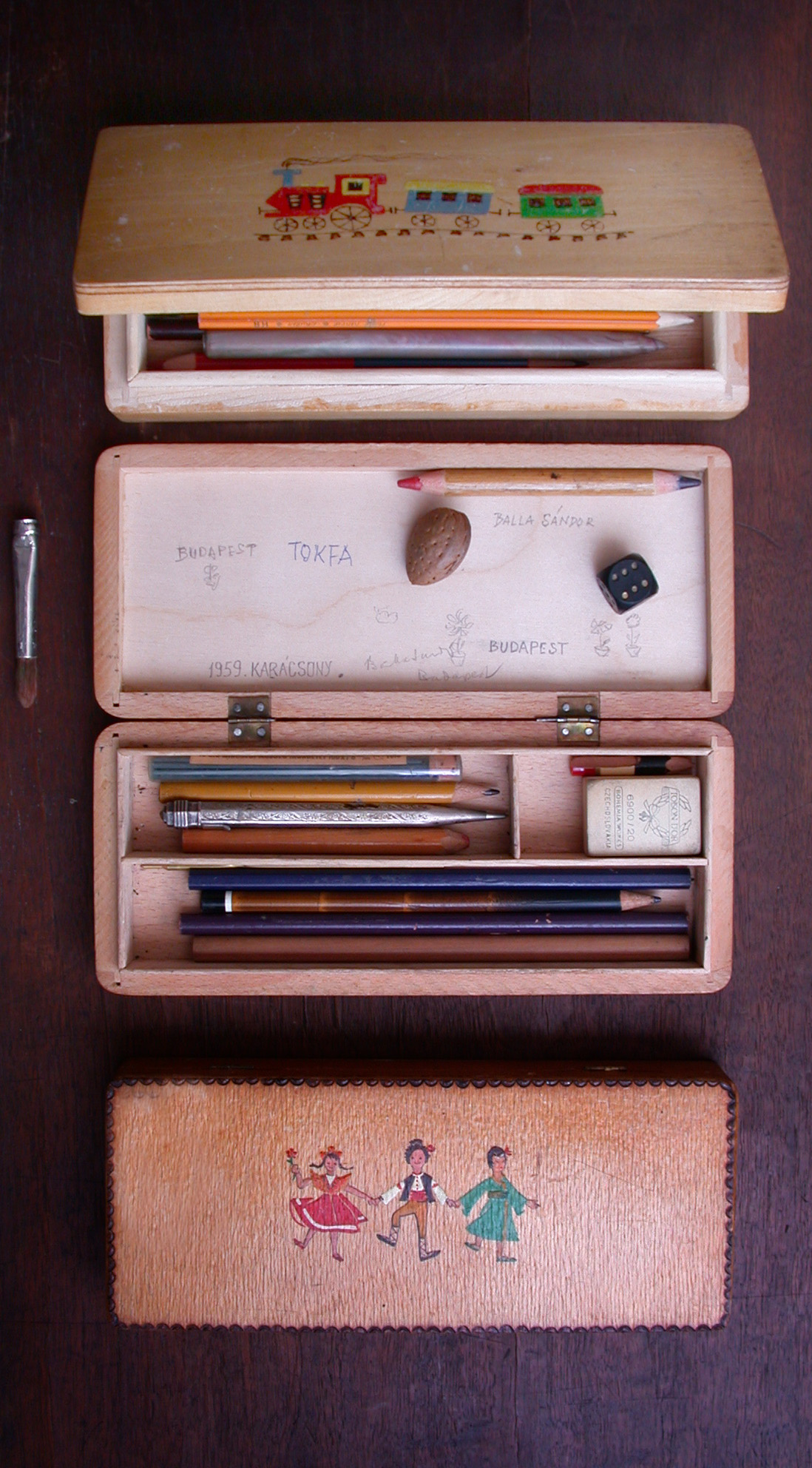 Pencils & pencilbox, 1950's - 1960's years from Hungary - Alexander Balla's pencilbox, in hungarian joke name: tokfa - casingwood